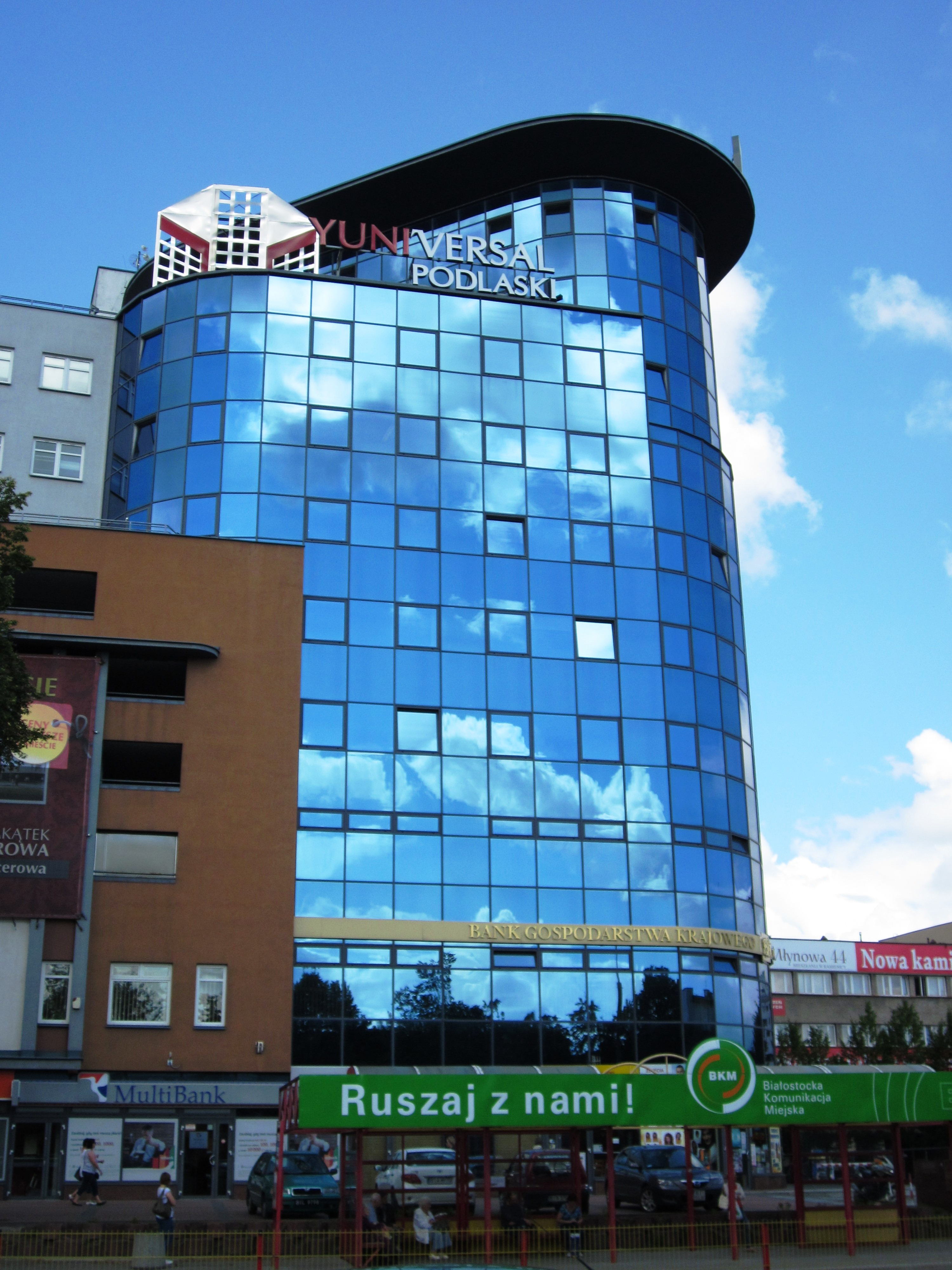 Development Yuniversal Podlaski - real estate development in Białystok